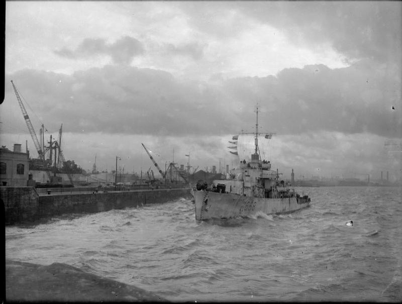 The Canadian River class frigate HMCS La Hulloise (K668) entering Gladstone Dock, Liverpool.